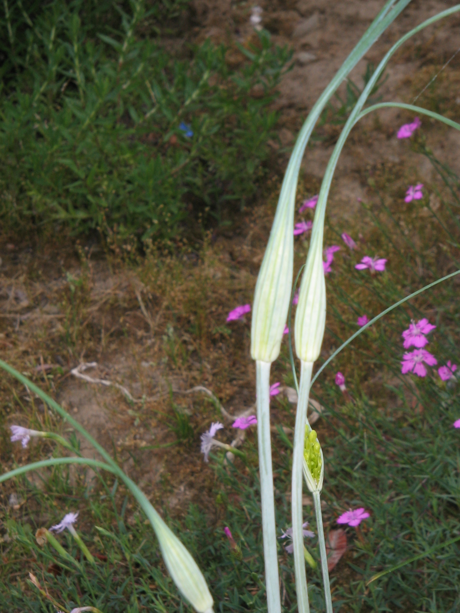 Allium flavum buds